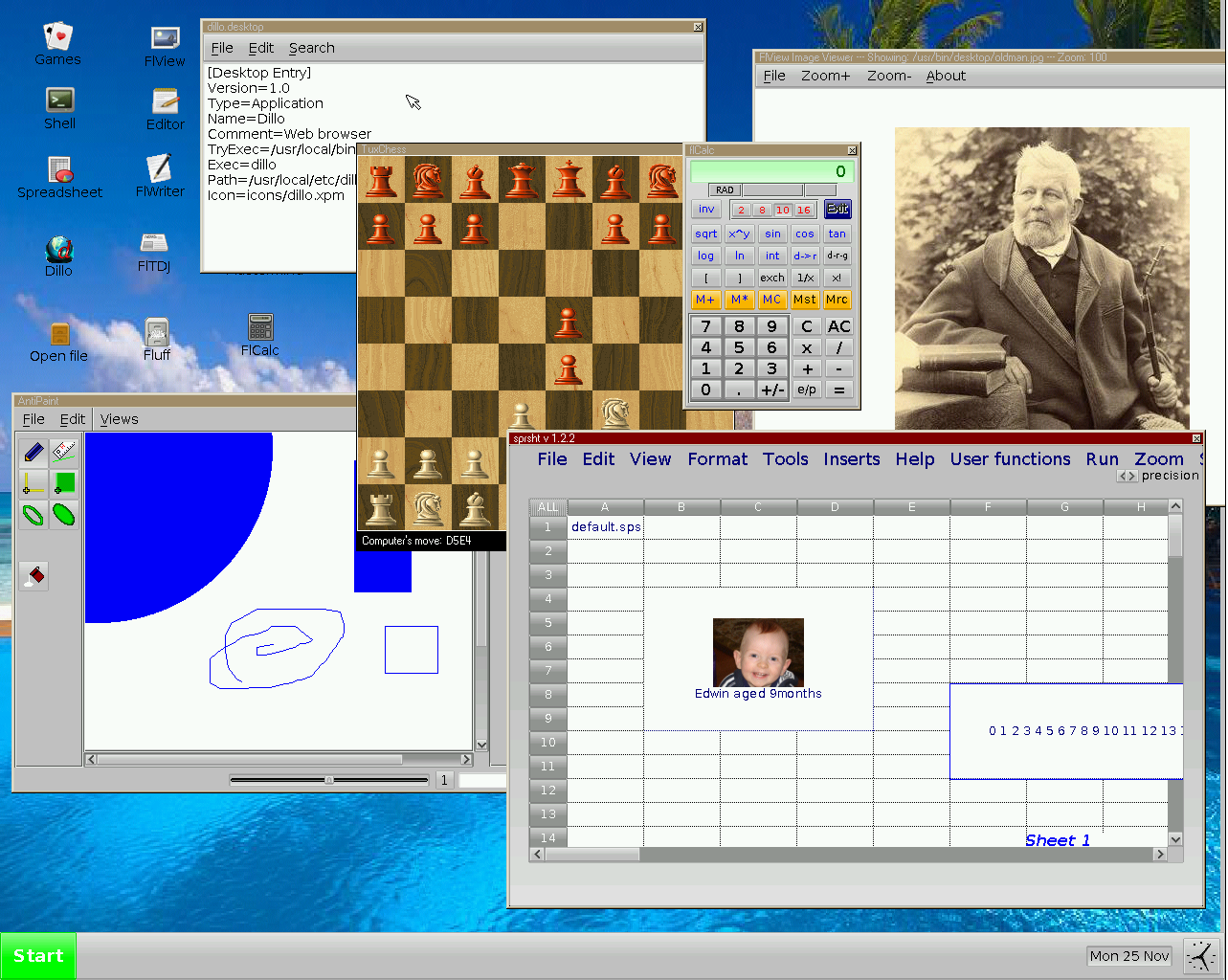 A screenshot of the Nanolinux desktop.Shown are: Shortcut text file for Dillo browser TuxChess flCalc FlView Image Viewer AntiPaint sprsht v 1.2.2